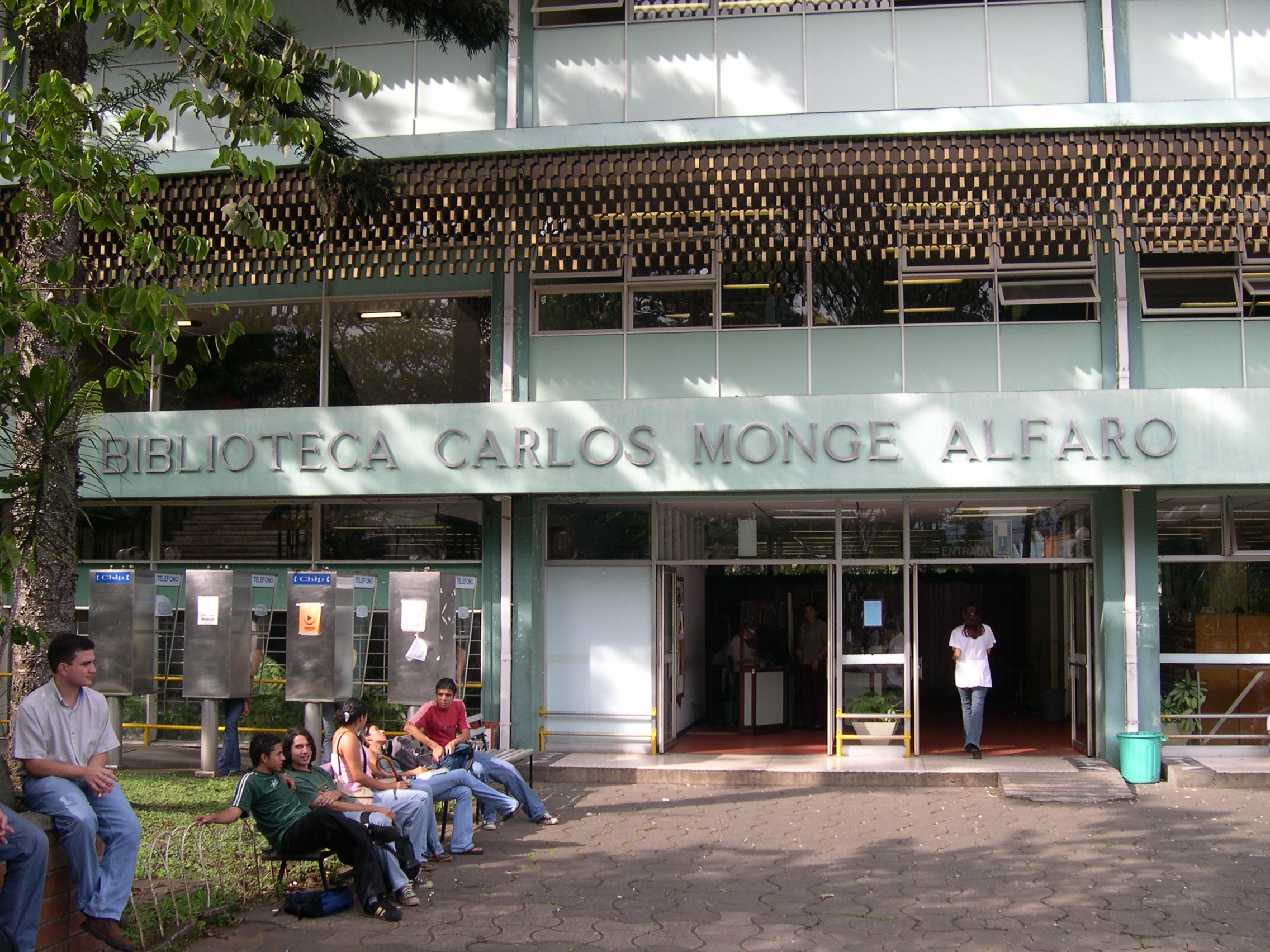 Image of the Carlos Monge library on the University of Costa Rica main campus